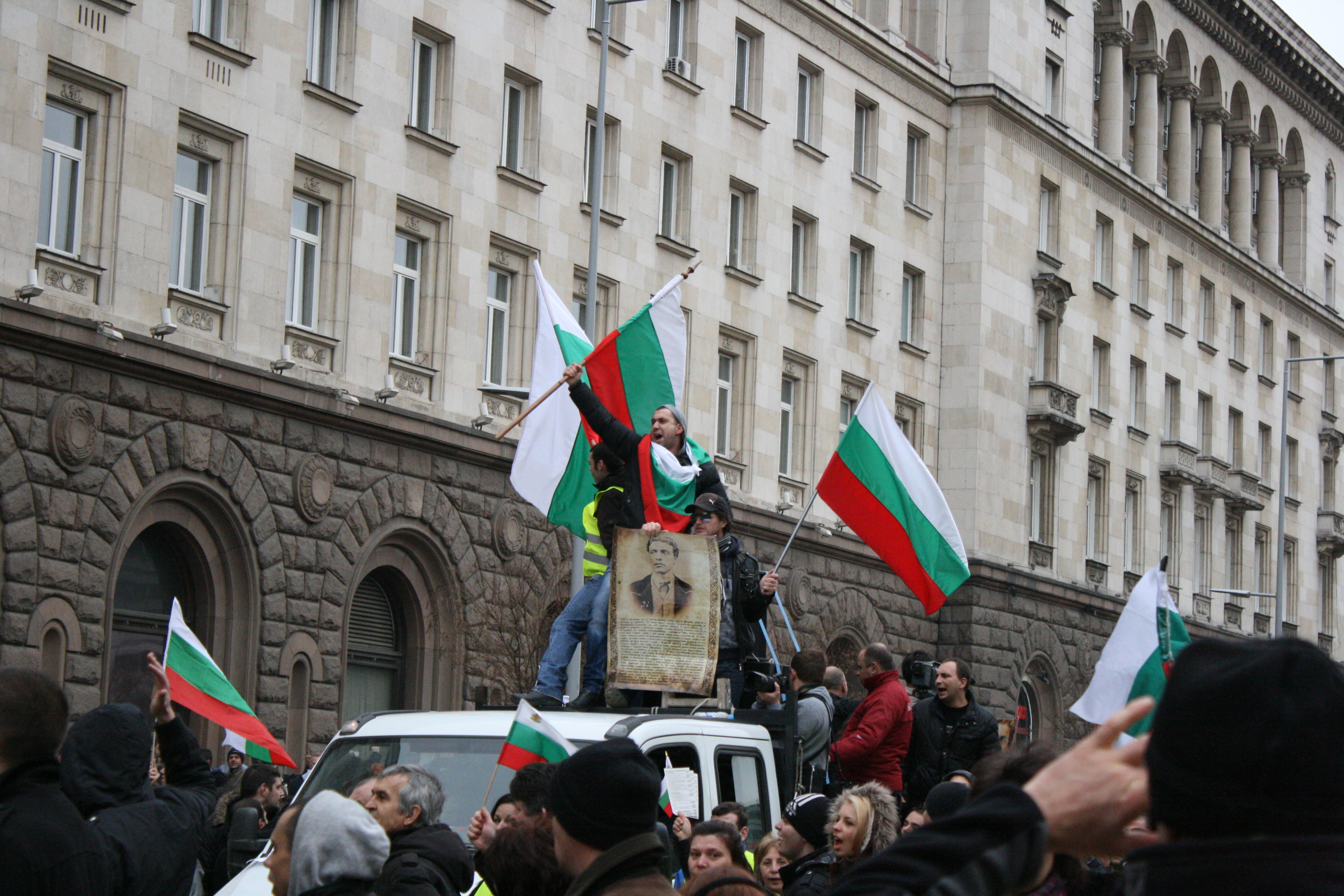 Men with national flags on top of a truck, Presidency, Sofia, 24 February